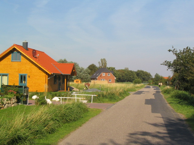 Main street of the German village Hellschen.